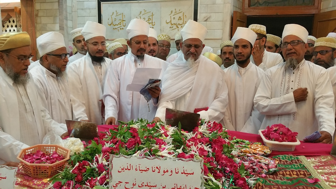 Urs of Syedna Ziyauddin saheb